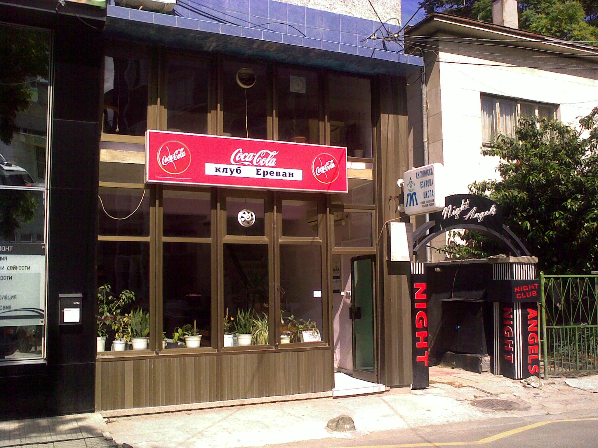 Armenians in Burgas